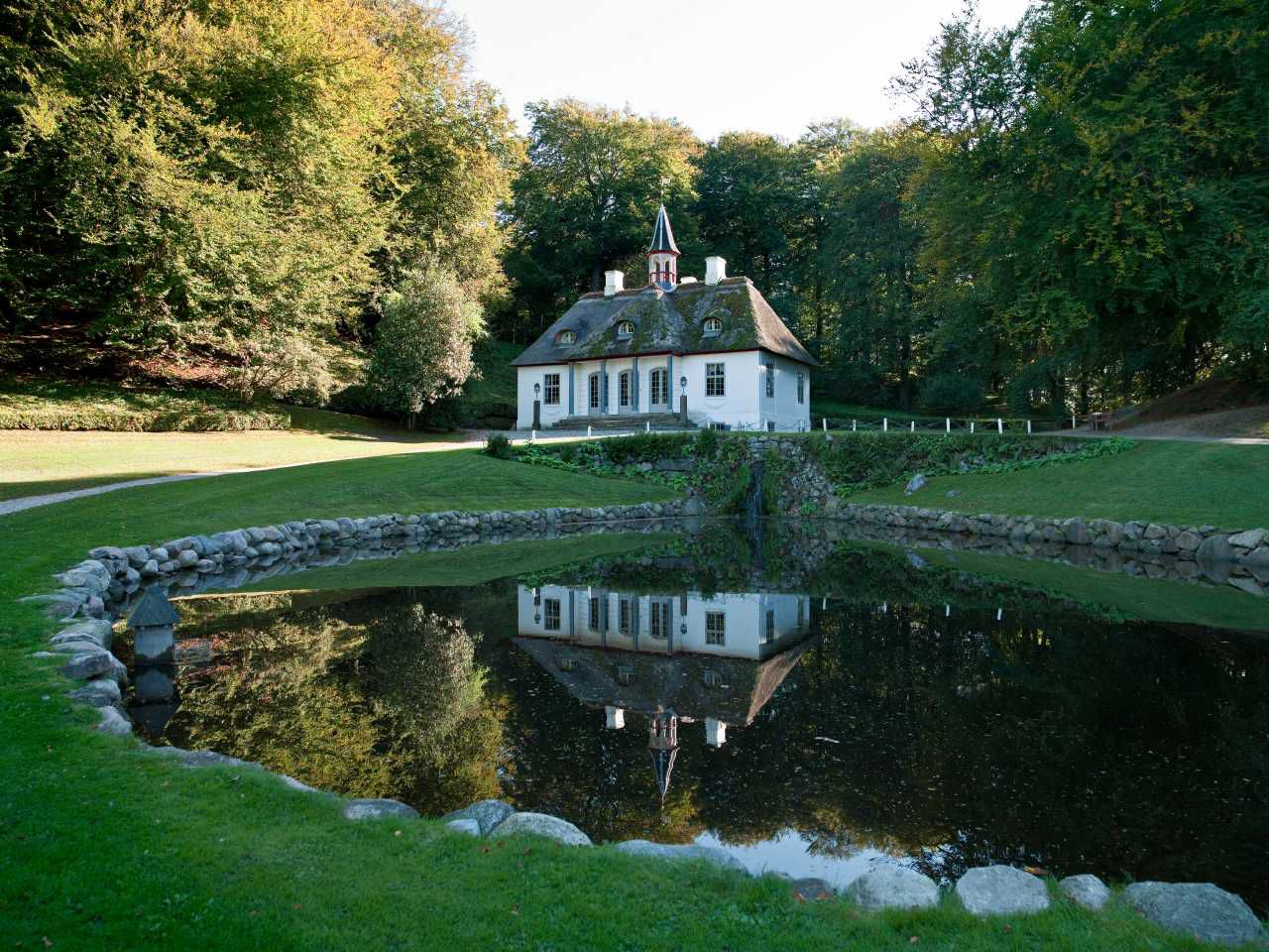 Liselund main building on Møn, Denmark